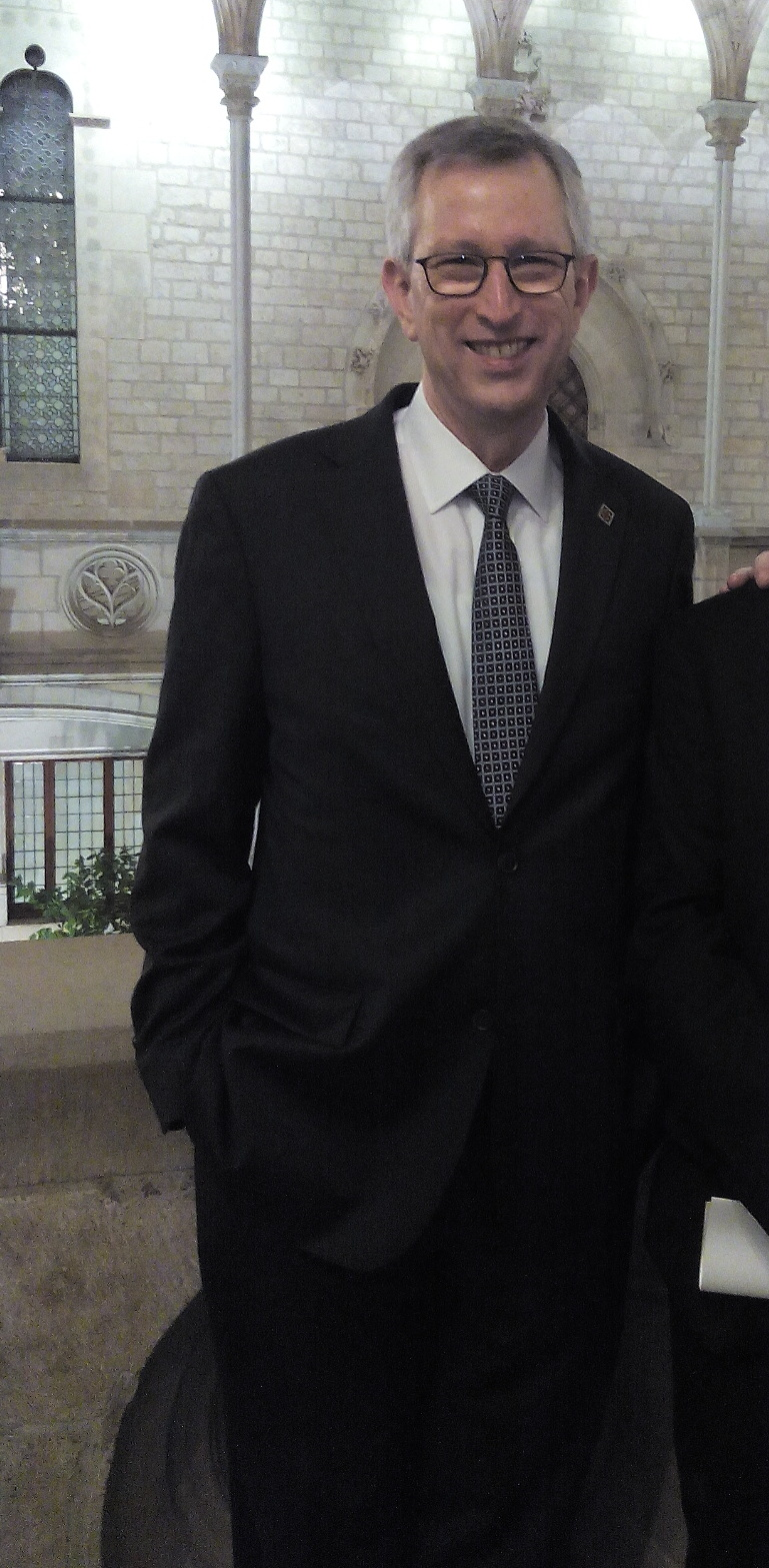 Joan Massagué in the XXVIII Premi Internacional de Catalunya